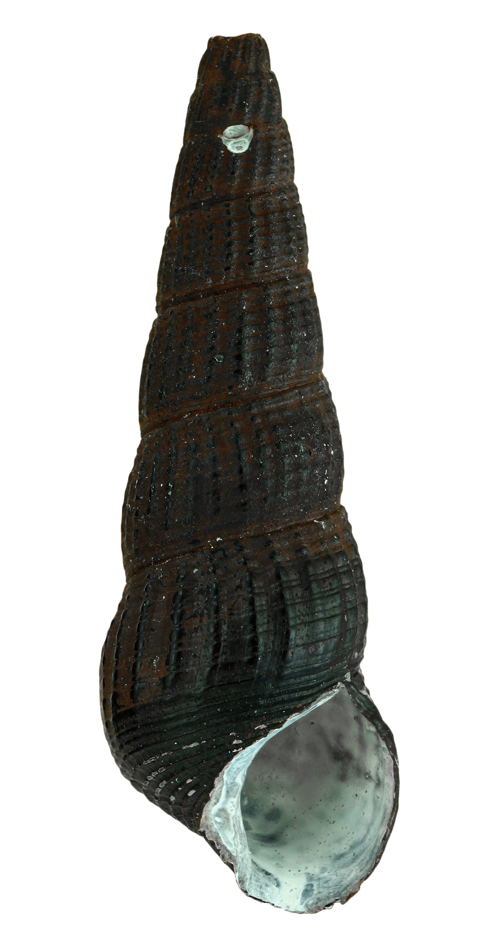 Photo of an apertural view of a shell of Tylomelania towutensis.